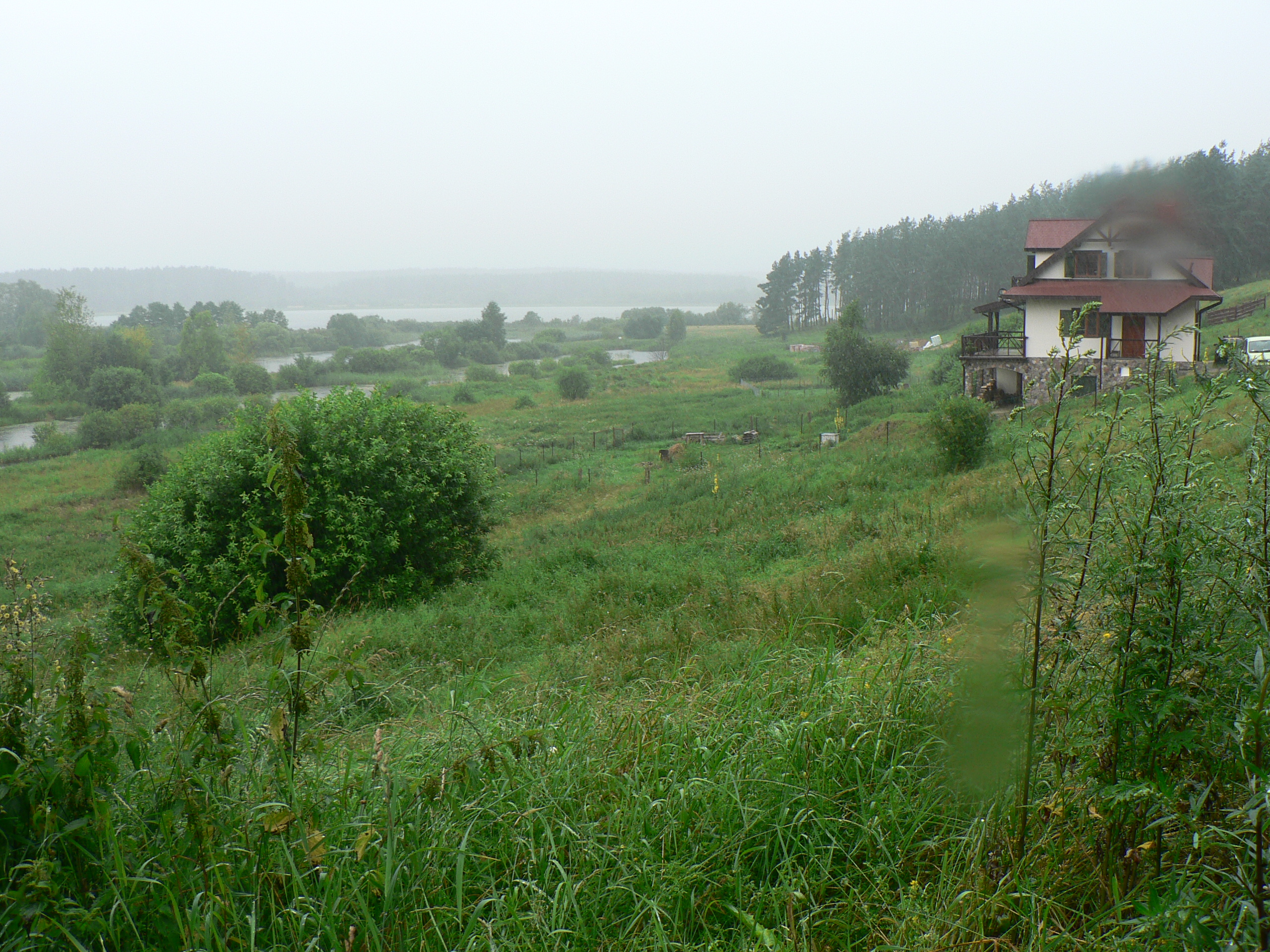 River Łyna and Lake Kiernoz Mały, southwards of Kurki